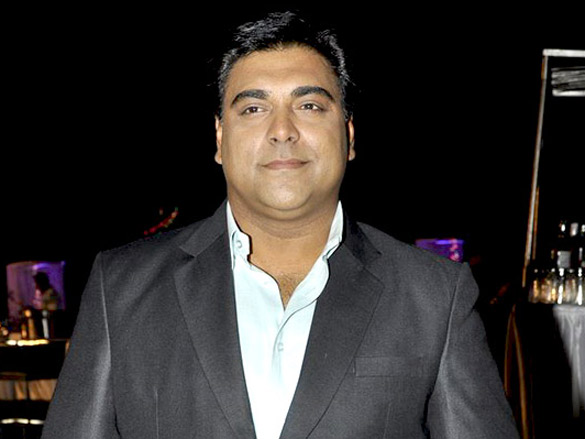 Ram kapoor bade ache lagte ho event